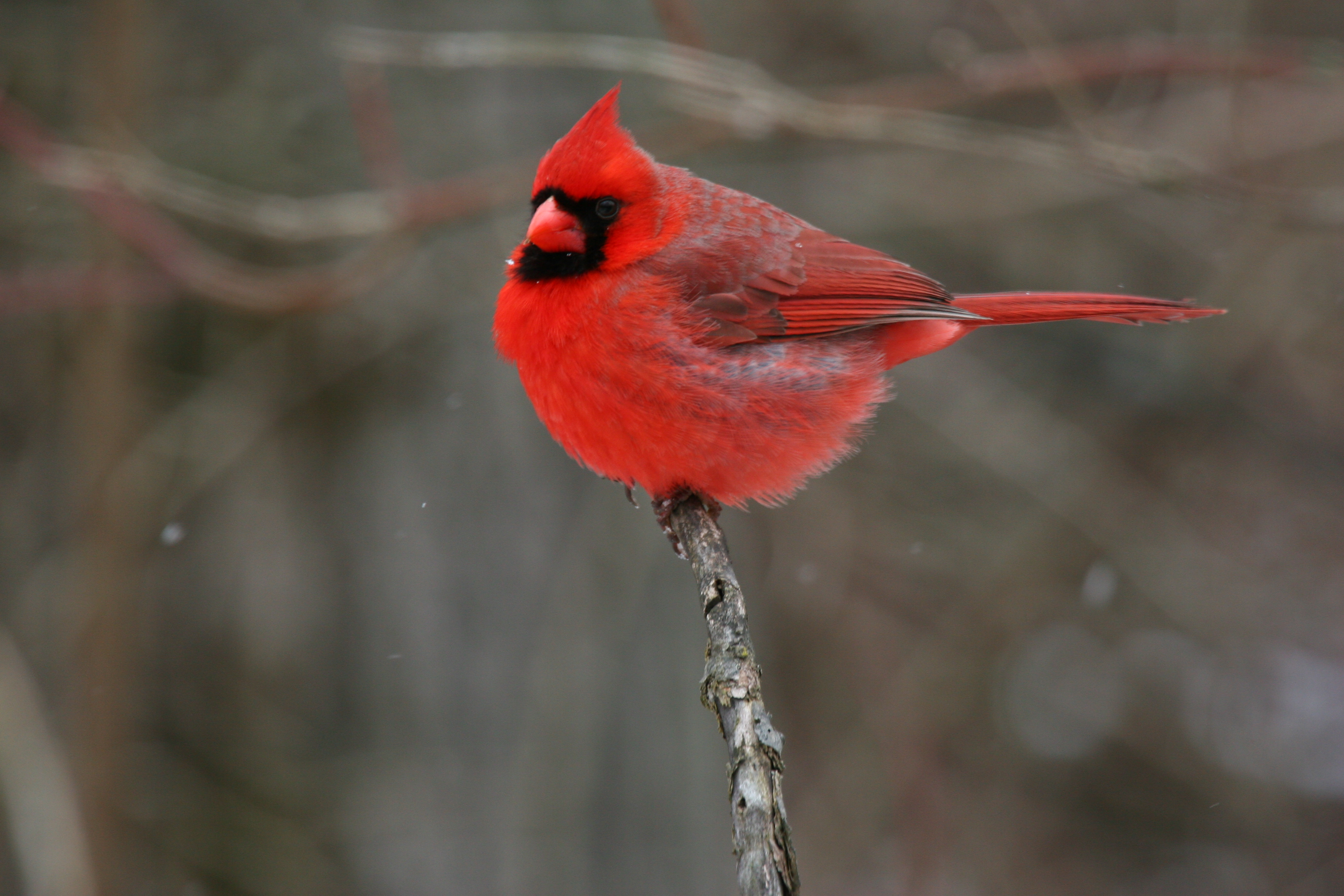 Northern Cardinal (Cardinalis cardinalis) or Redbird